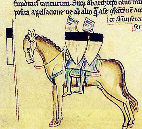 Drawing of two knights on a horse, the emblem of the Knights Templar, Chronica Majora by Matthew Paris, MS 26, f. 220 (reproduced in Barber, Malcom. The Trial of the Templars).